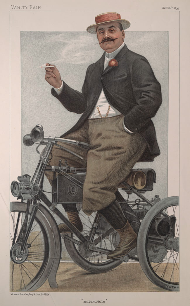 Men of the Day No.761: Caricature of Le Comte Albert de Dion. Caption reads: "Automobile"